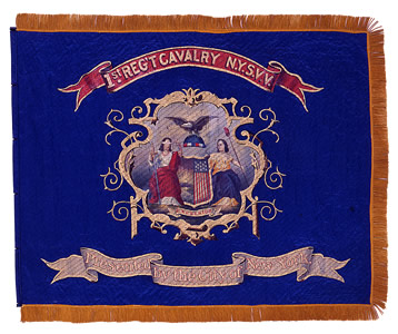 1st Regiment Cavalry, New York Volunteers Standard. The 1st Regiment Cavalry, New York Volunteers mustered into service between July 16 and August 31, 1861. When their three year term expired, those entitled were discharged and the regiment continued in service as “Veteran Volunteers,” as indicated by the “N.Y.S.V.V.” painted along the upper ribbon of this blue silk standard. The flag features the Arms of the State of New York painted on the obverse and the Arms of the City of New York painted on the reverse. The painted presentation inscription on the lower ribbon, "Presented by the City of New York.", appears on both sides reading left to right. Flag dimensions are: 40” hoist X 47 3/4” fly.